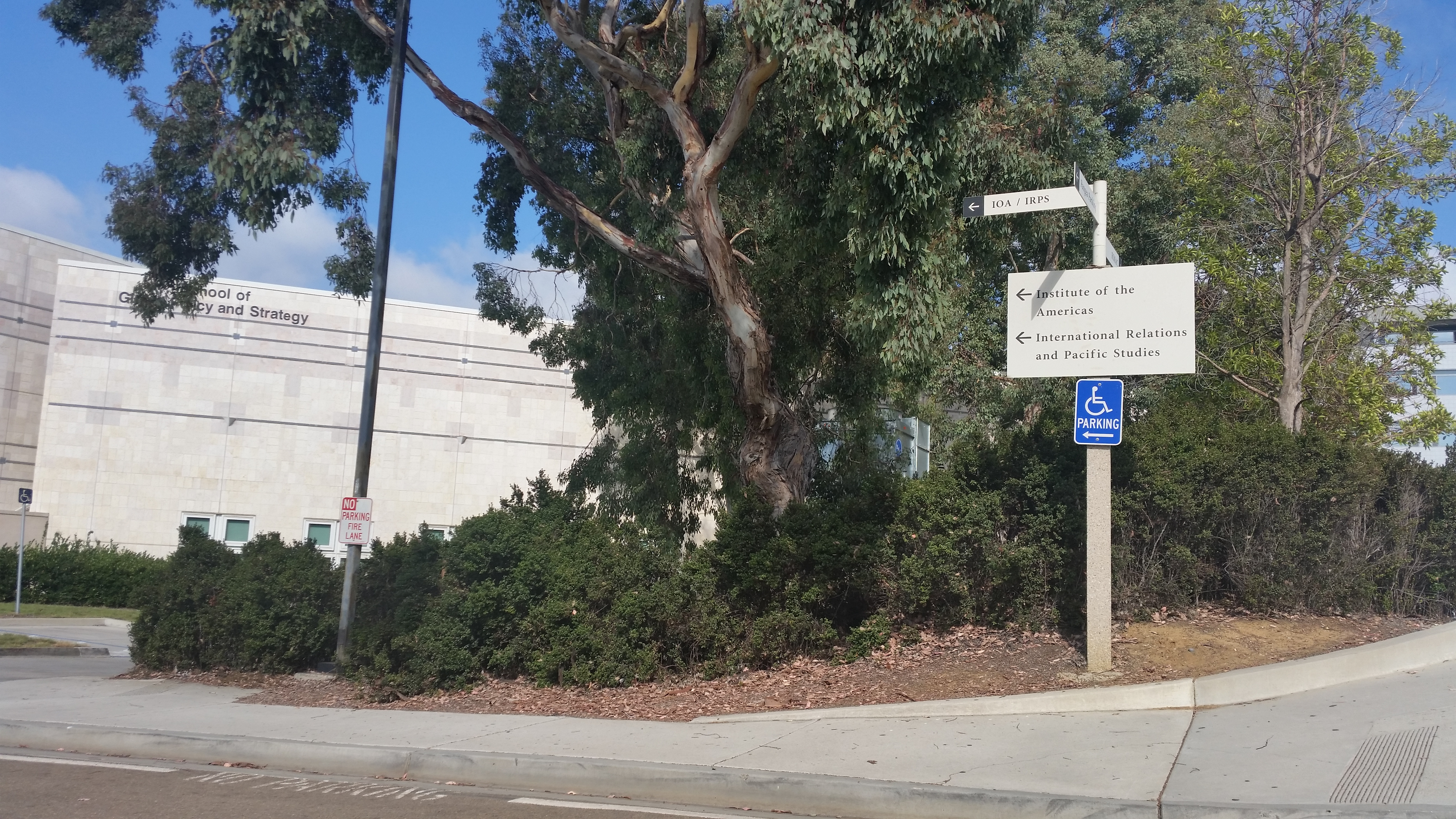 The exterior of the School of Global Policy and Strategy building from the corner of International Lane and Thurgood Marshall Lane, to include signs directing to the School of International Relations and Pacific Studies